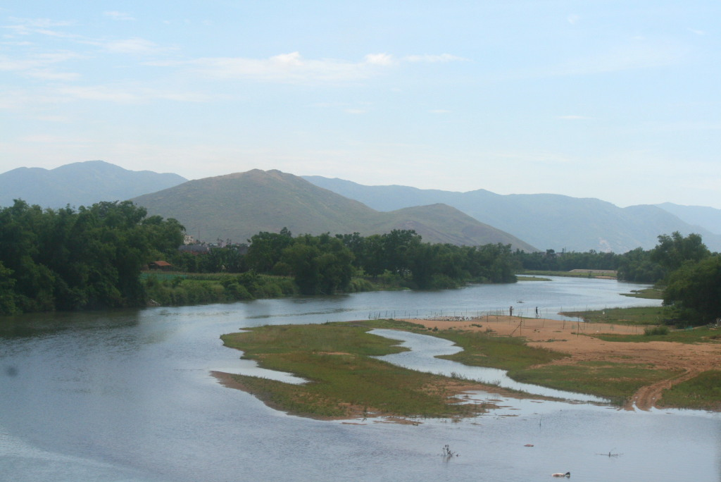 scenery in central Binh Dinh Province, Vietnam